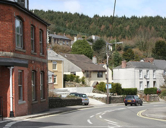 Northern end of the village of St Blazey. On the slope behind the village is the conifer plantation of Prideaux Wood.